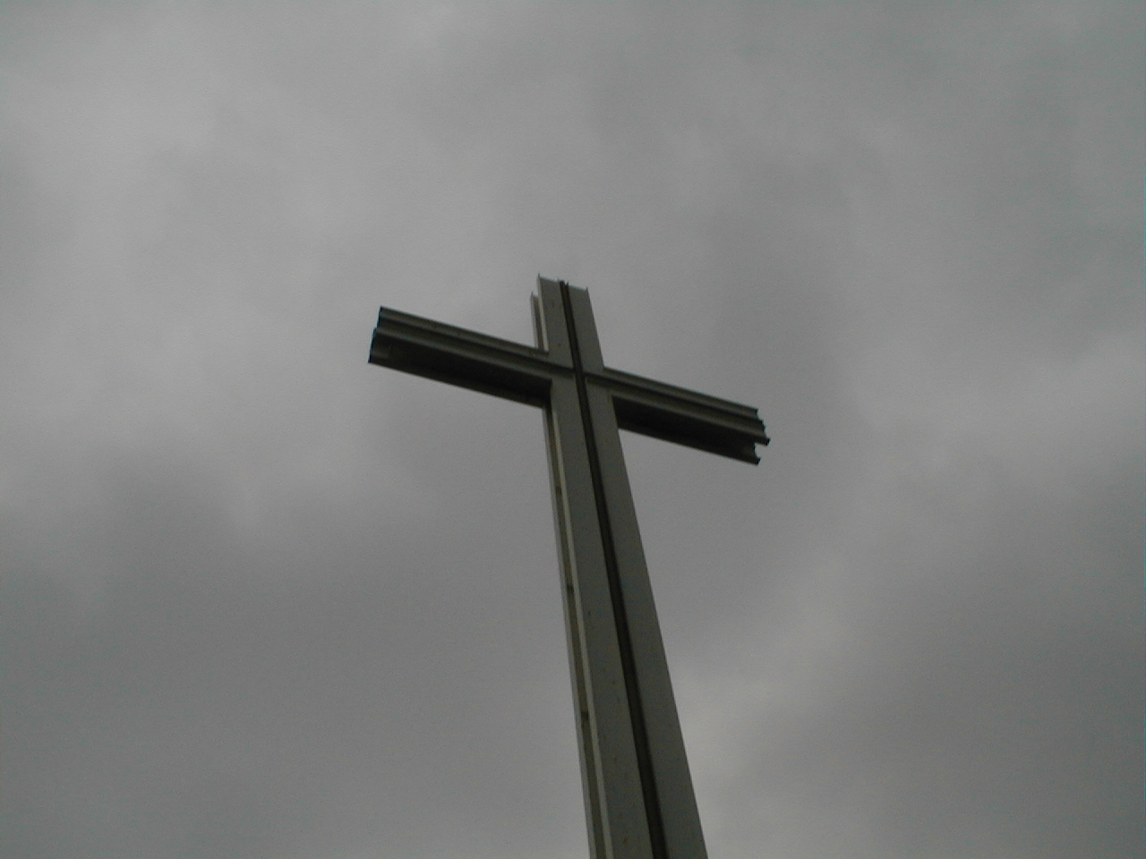 Papal Cross in Phoenix Park, Dublin, Ireland